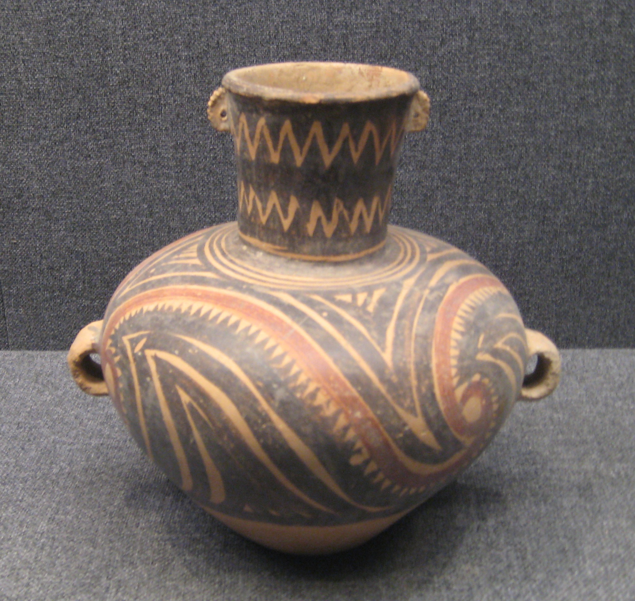 Painted pottery jug from the Banshan 半山 phase (circa 2700 BC to 2300 BC) of the Yangshao culture. On exhibition at the Museum of the Mausoleum of the Nanyue King, Guangzhou, China.